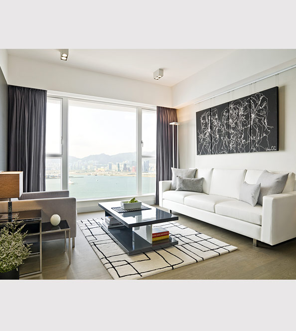 Jointly developed by Swire Properties and China Motor Bus, Island Lodge in North Point offers 184 stylish two- to four-bedroom apartments.